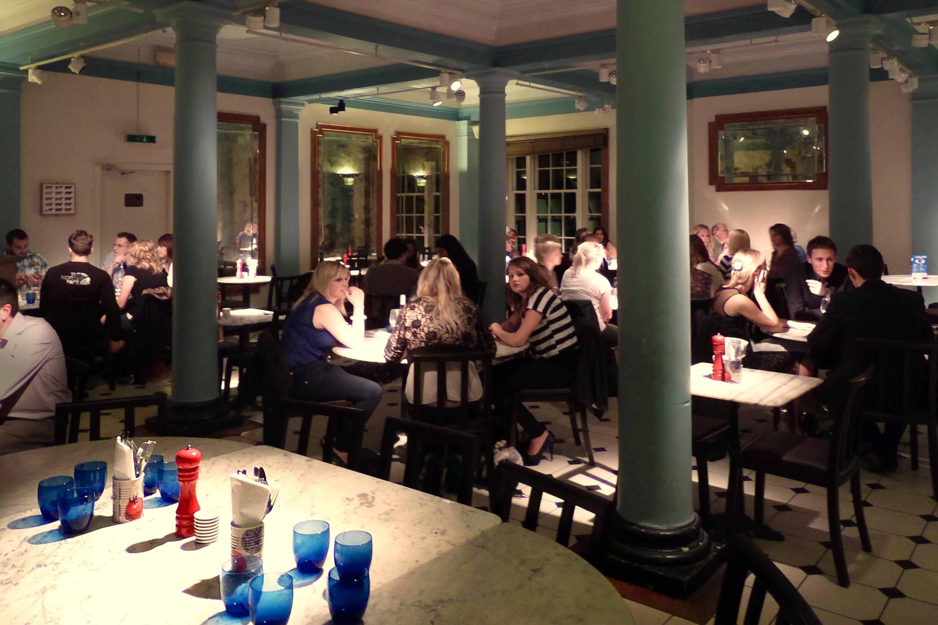 A former room of the Pitt Club, now used by Pizza Express at 7a Jesus Lane, Cambridge, England.